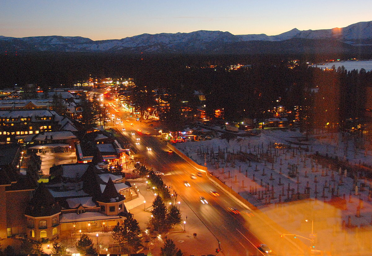 U.S. Route 50 in South Lake Tahoe, entering Nevada state (past the intersection at the bottom).